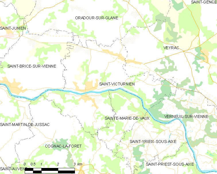 Map of French municipality Saint-Victurnien